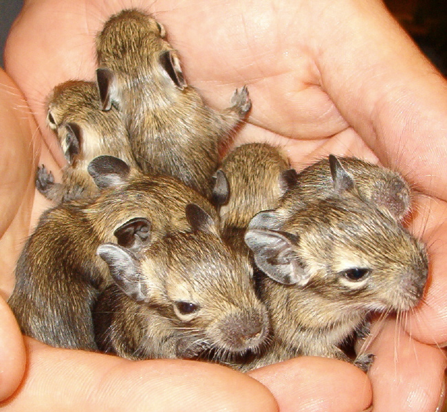 Juveniles of Octodon degus